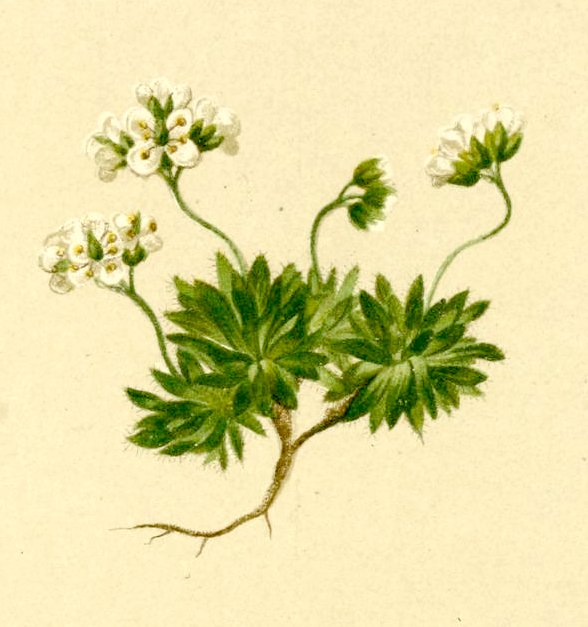 Draba hoppeana